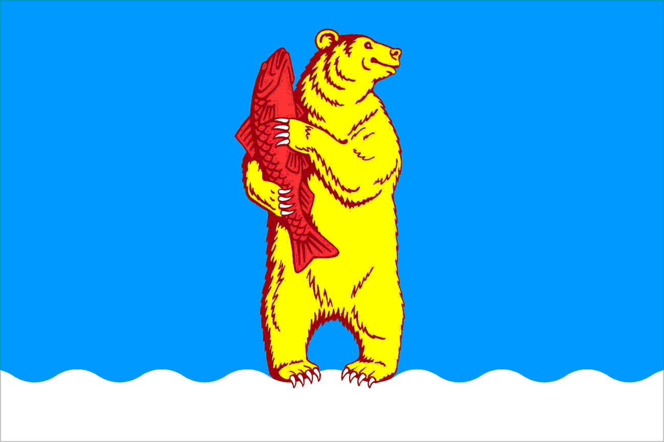 Anadyr (Chukotka), flag